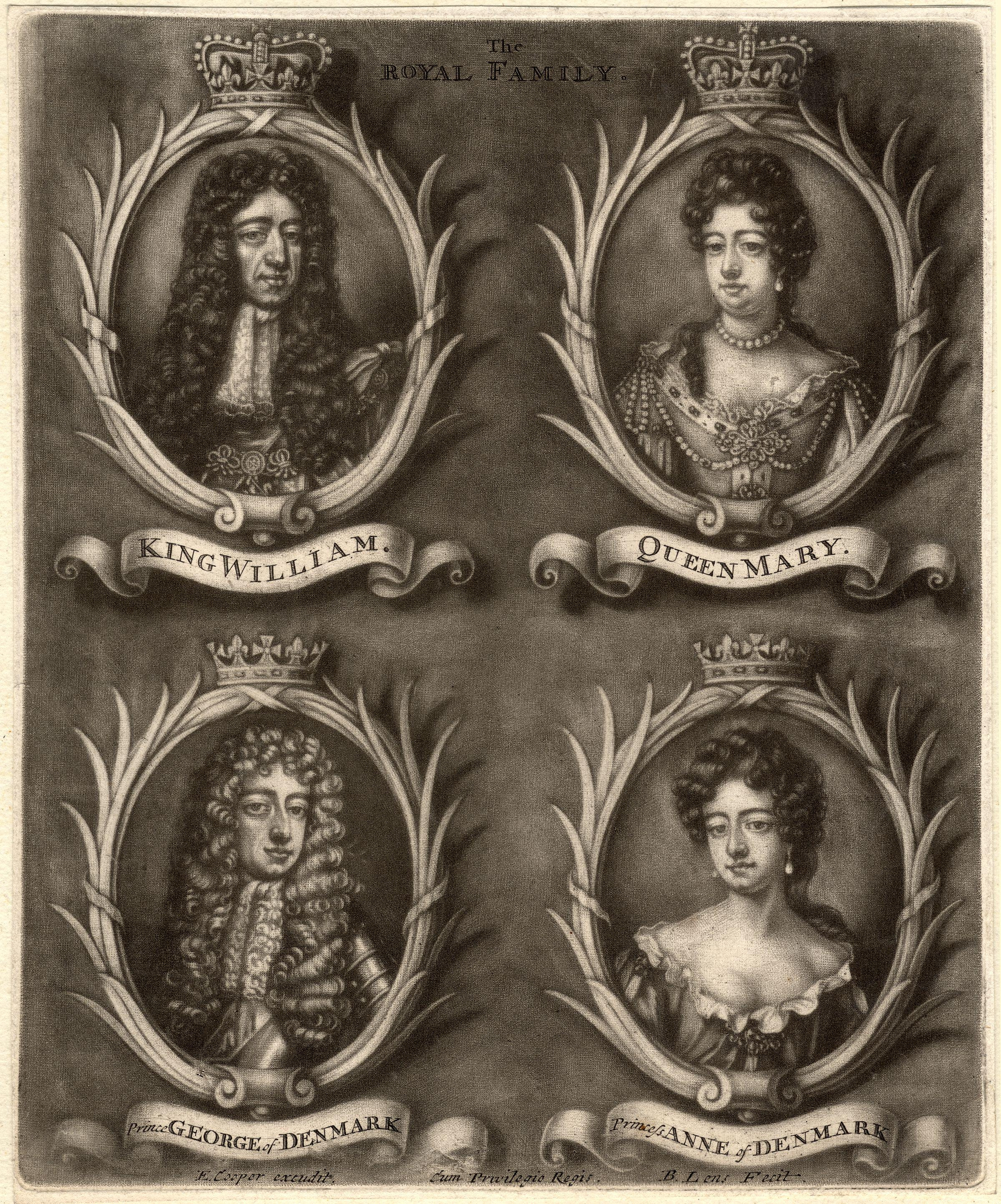 The Royal Family, by Bernard Lens (II) (died 1725). All images in this batch have been confirmed as author died before 1939 according to the official death date listed by the NPG.